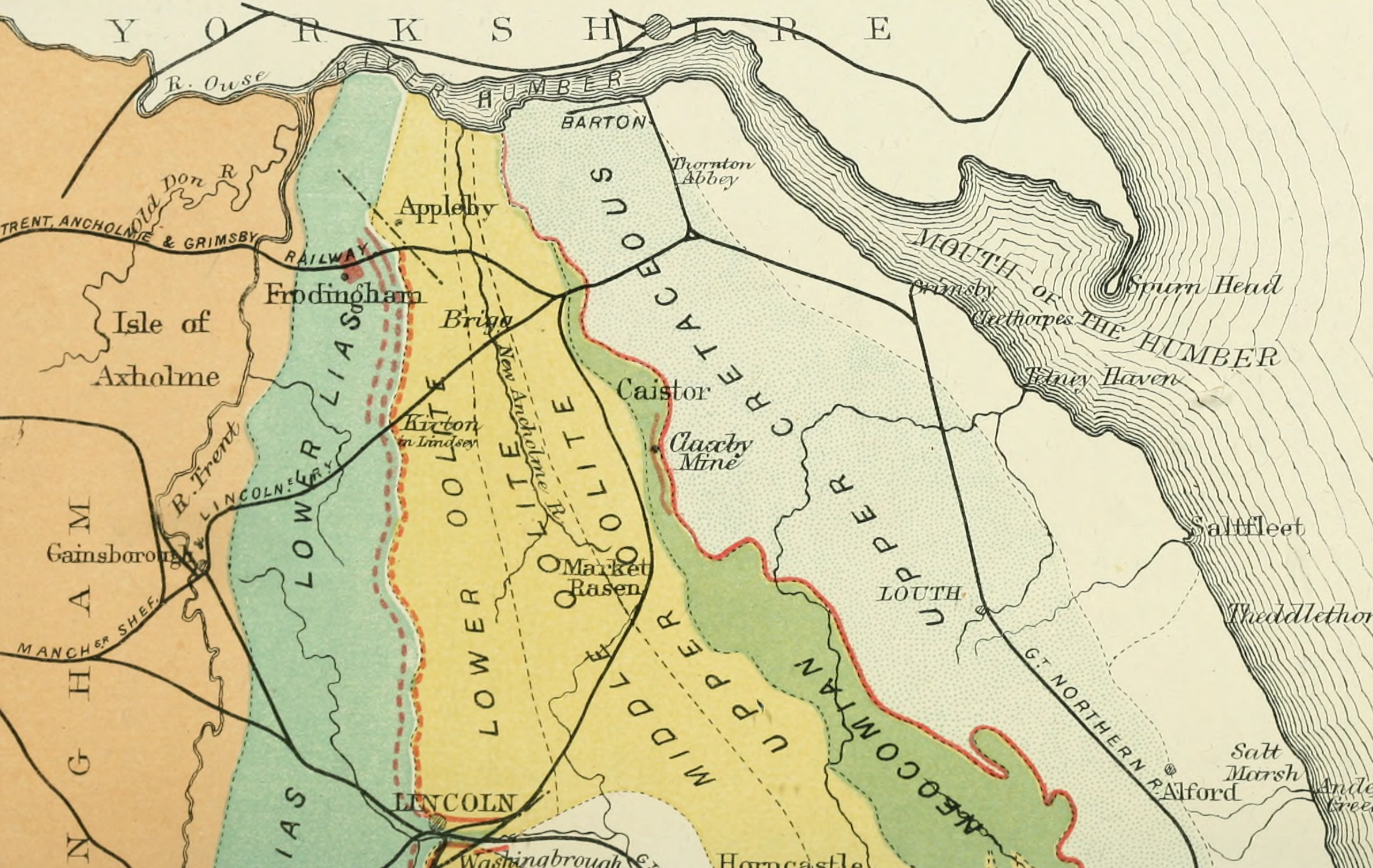 Cropped image of geological map of part of Lincolnshire UK from Daglish, J.; Howse, R. (1875), “Some Remarks on the Beds of Ironstone Occurring in Lincolnshire”, in Transactions of the North of England Institute of Mining Engineers[1], volume 24 (1874-75), pages 23